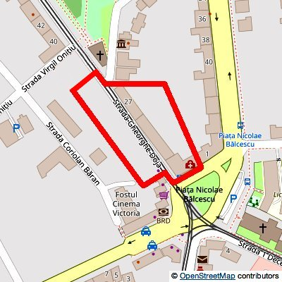 Map of heritage site "Ansamblul urban VIII", Timișoara, Romania